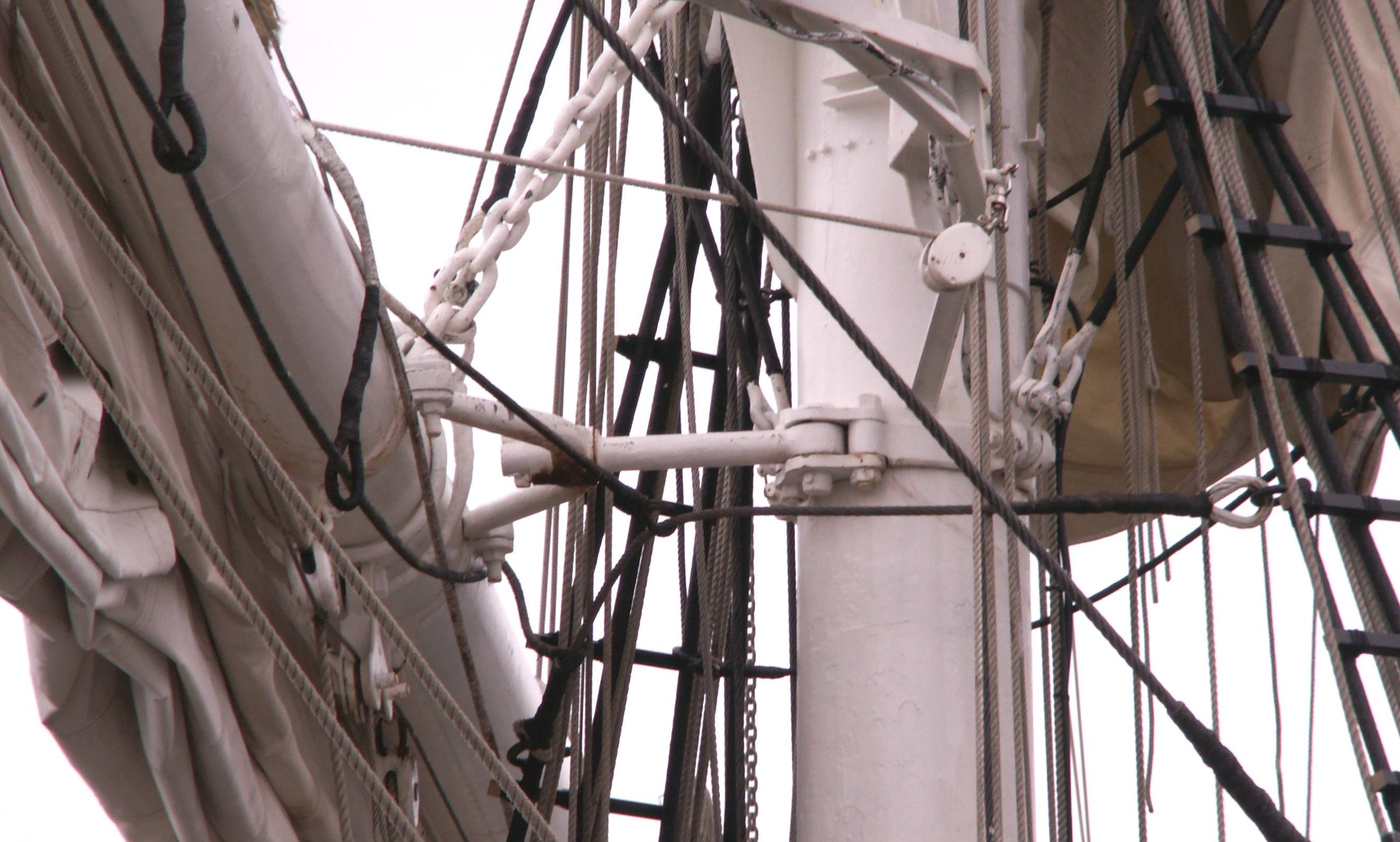 A picture of a square rigged ship I shot at Ostend, Belgium during the "Oostende Voor Anker"-event (28-30 May 2010). The picture clearly shows that the yards of the vessel move with the wind. This allows the yards to direct themselves better to the wind, and thus increase efficiency of the sails. Note that besides yards, there are also other rigging arrangements that allow the sails to move autonomously depending on the winddirection. An example is the rigging used at the Reaper ship.